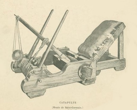 Edited version of Commons-file Roman ballista; catapult.jpg